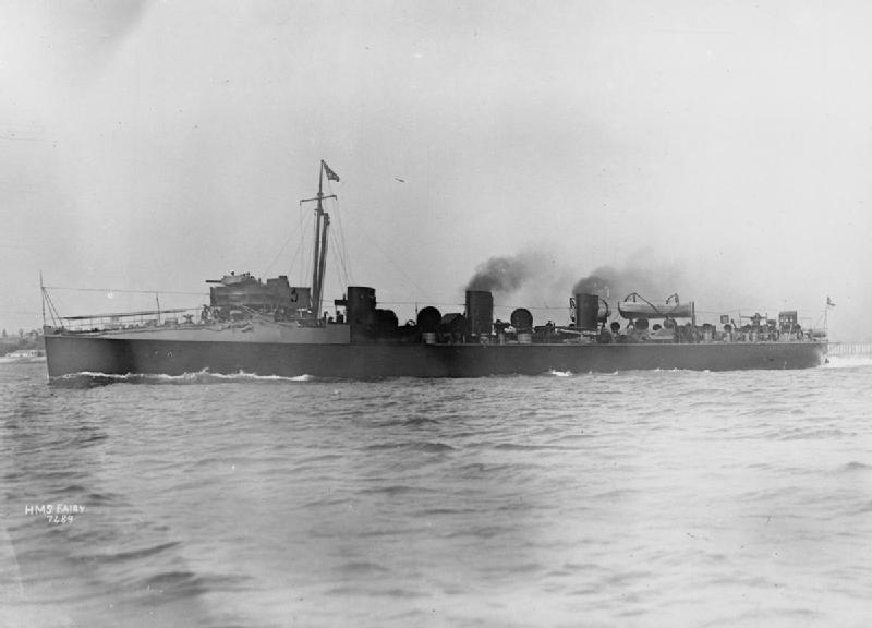 Photograph of British Gipsy class torpedo boat destroyer HMS Fairy.